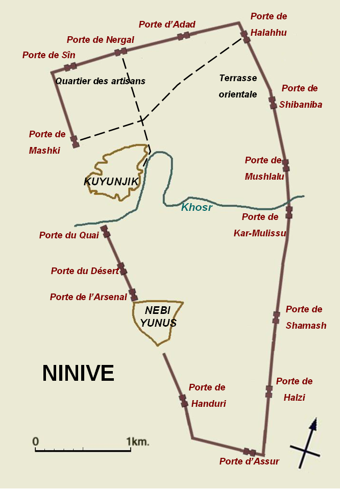 Simplified plan of Nineveh with the names of the gates and important places in french. Informations based on : D. Stronach et S. Lumsden, « UC Berkeley's Excavations at Nineveh », in The Biblical Archaeologist 55/4, 1992, p. 228 and M. L. Scott et J. MacGinnis, « Notes on Nineveh », in Iraq 52, 1990, p. 73 fig. 4.